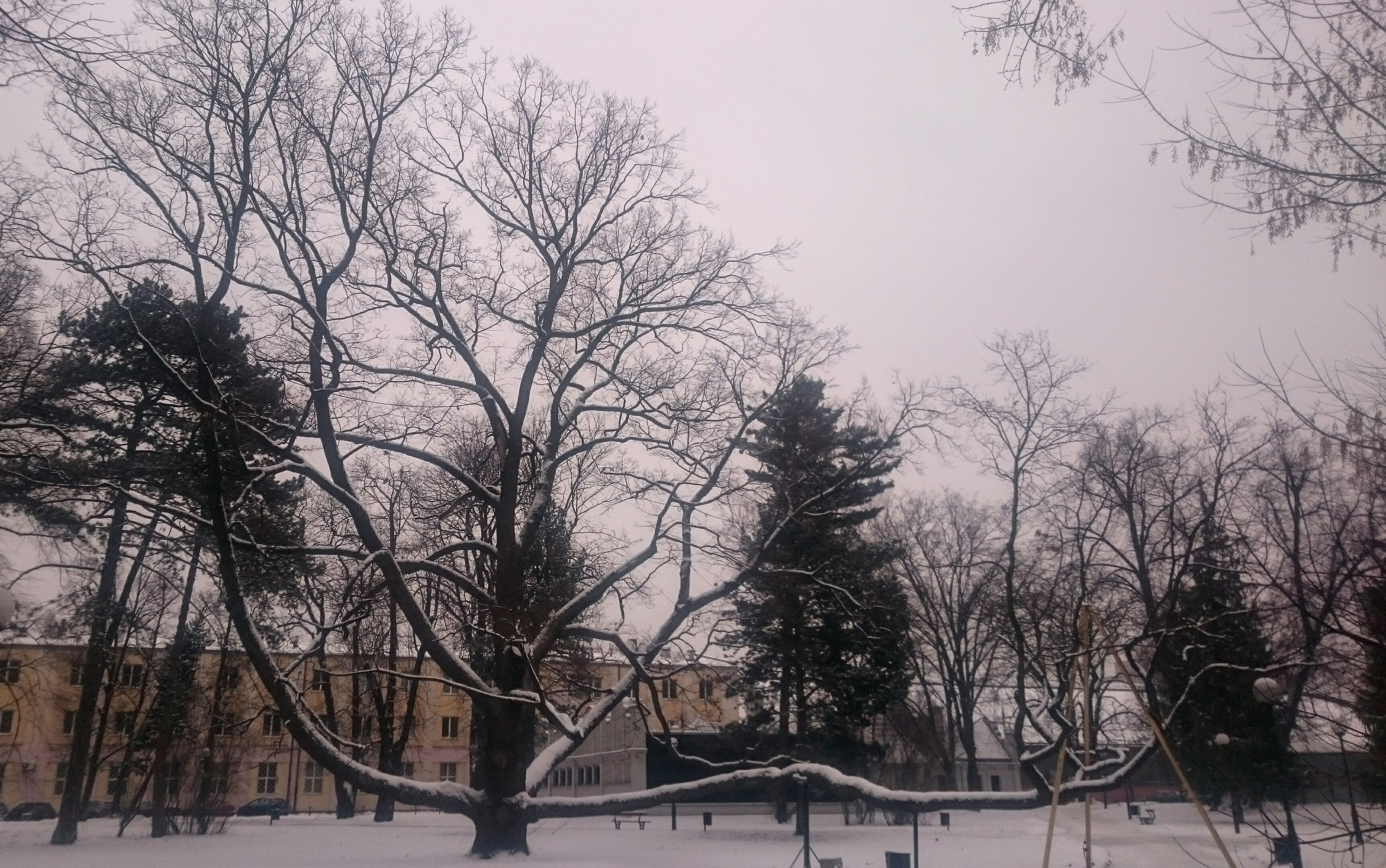 Pedunculate Oak 'Fabrykant', winter 2016.